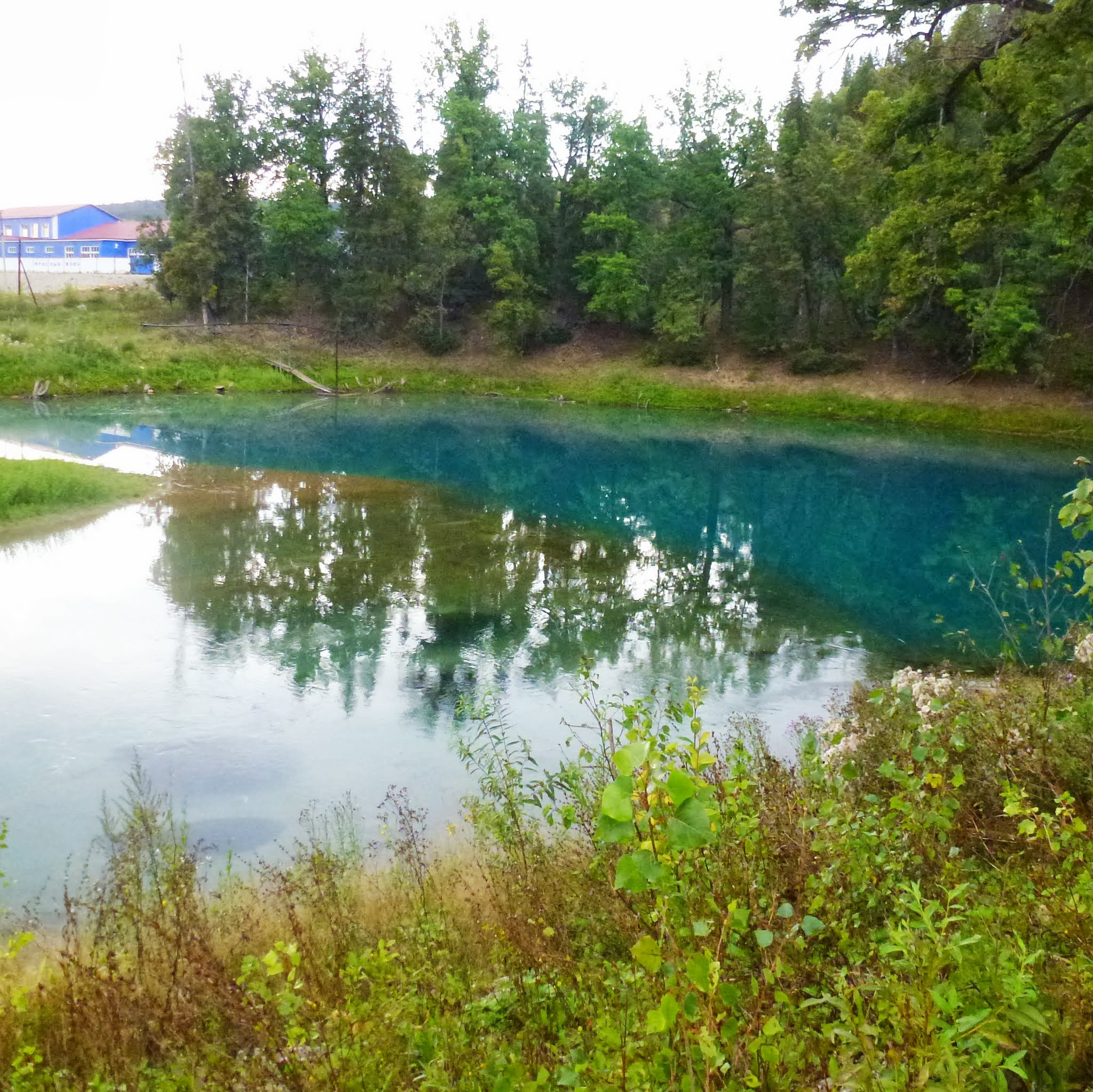 Spring Krasnyi Klyuch second largest by debit karst spring in the world, Bashkortostan, Russia.